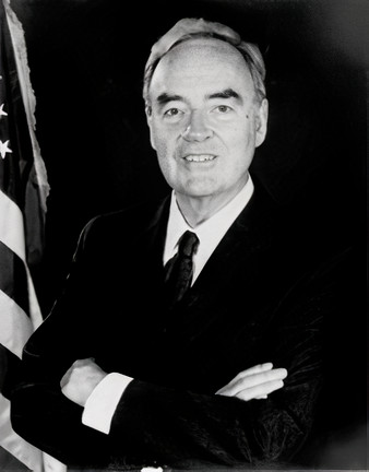 Credited to U.S. Senate Historical Office